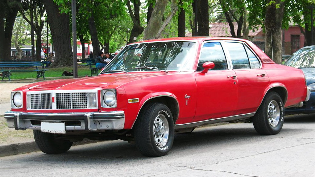 1977 Oldsmobile Omega sedan